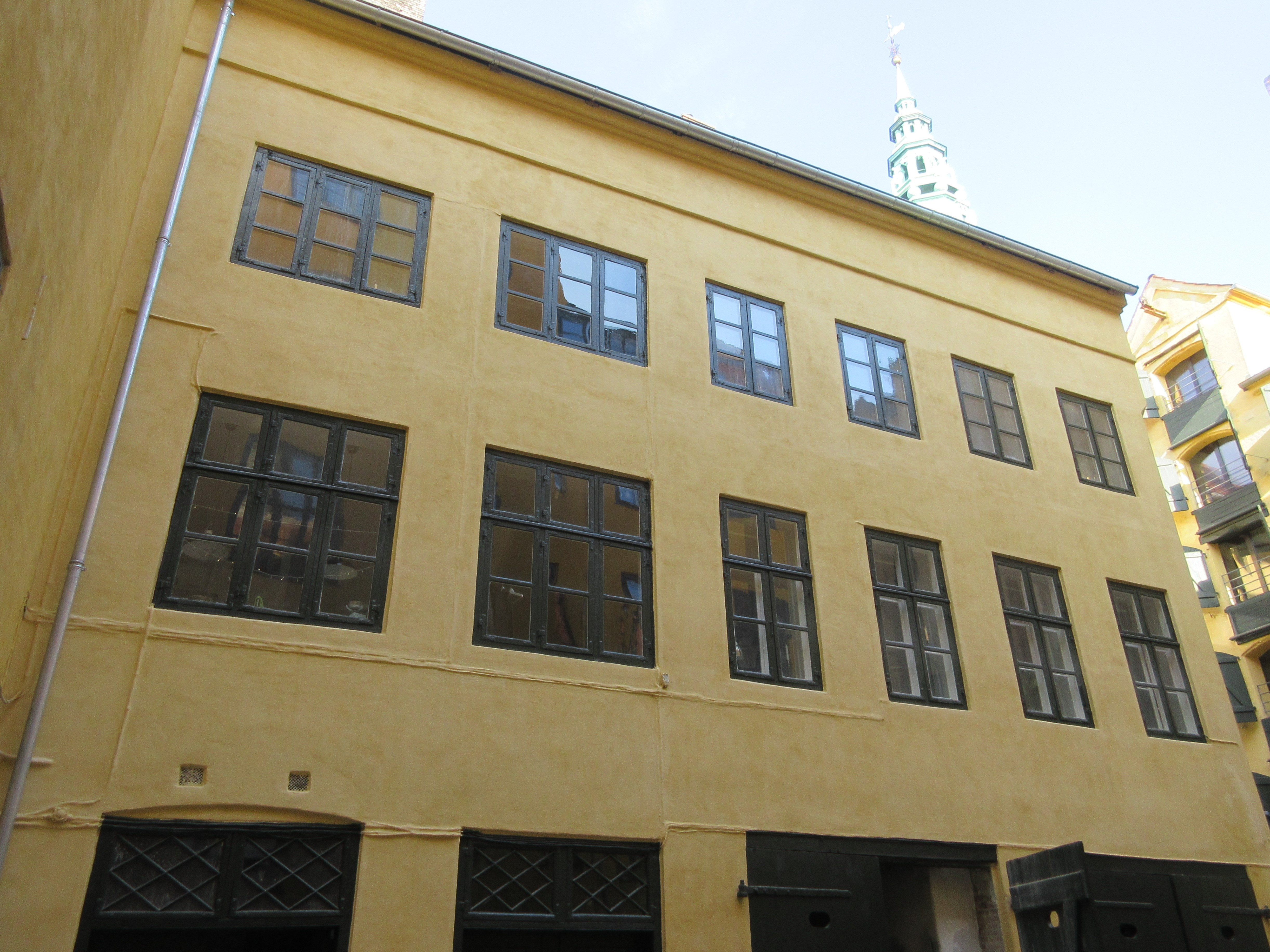 Former warehouse at Højbro Plads 21A in Copenhagen, Denmark